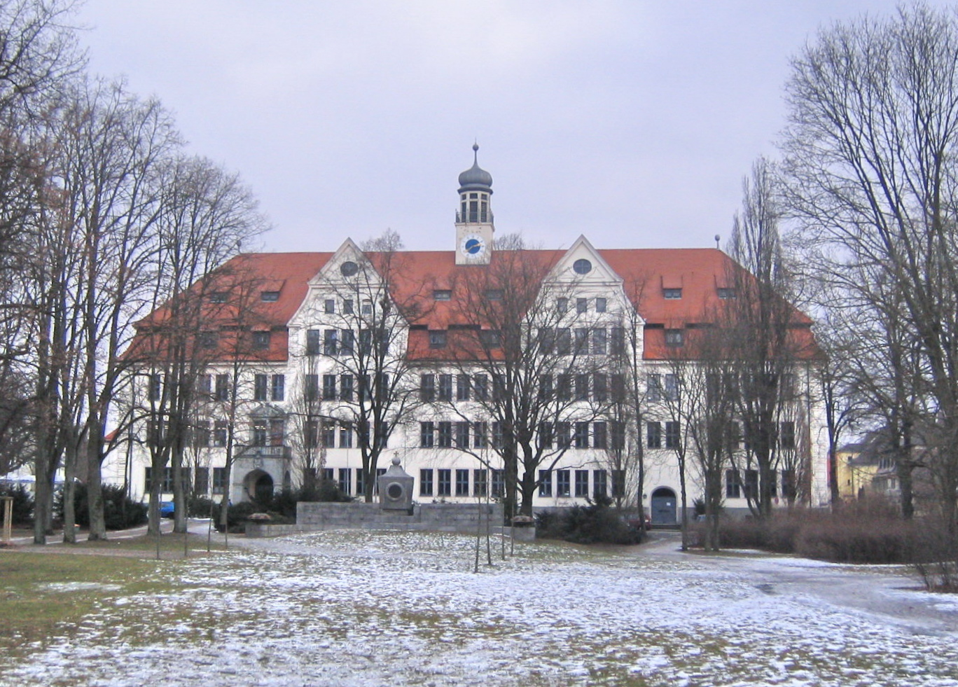 Highschool Graf-Münster-Gymnasium in Bayreuth